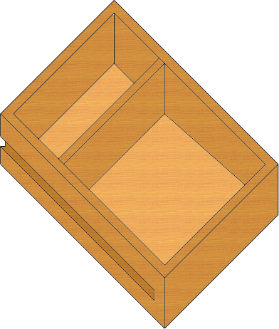 Artists illustration of a drawer.